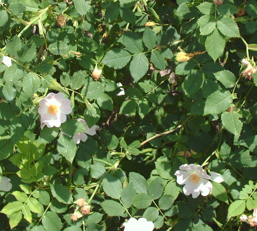 Wild rose (Rosa canina) bush Photo taken July 12, 2006 in Adelboden, Switzerland, 1400 m.ü.M.